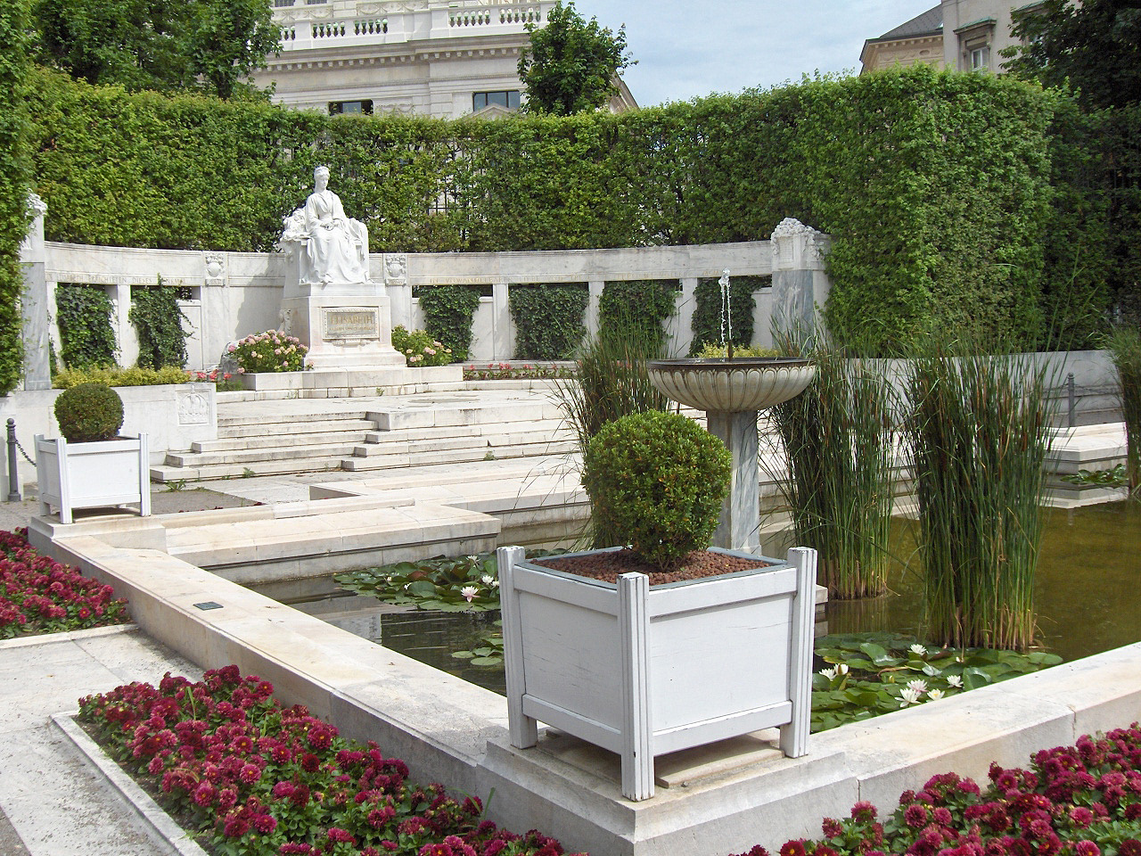 Monument for Empress Elisabeth, Volksgarten, Vienna, Austria